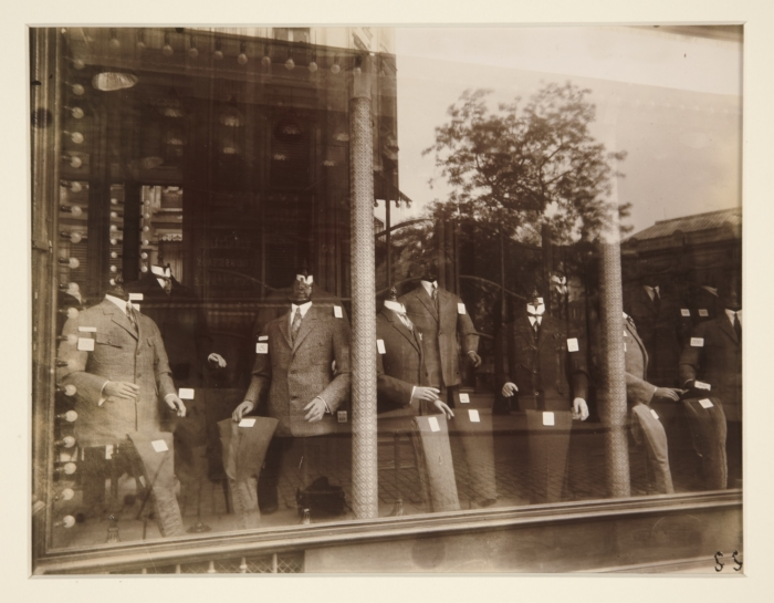 "Avenue des Gobelins," vintage albumen print, by the French photographer Eugène Atget. 7 in. x 8 13/16 in. Yale University Art Gallery, gift of Lunn Gallery/Graphics International Ltd. Courtesy of Yale University, New Haven, Conn.